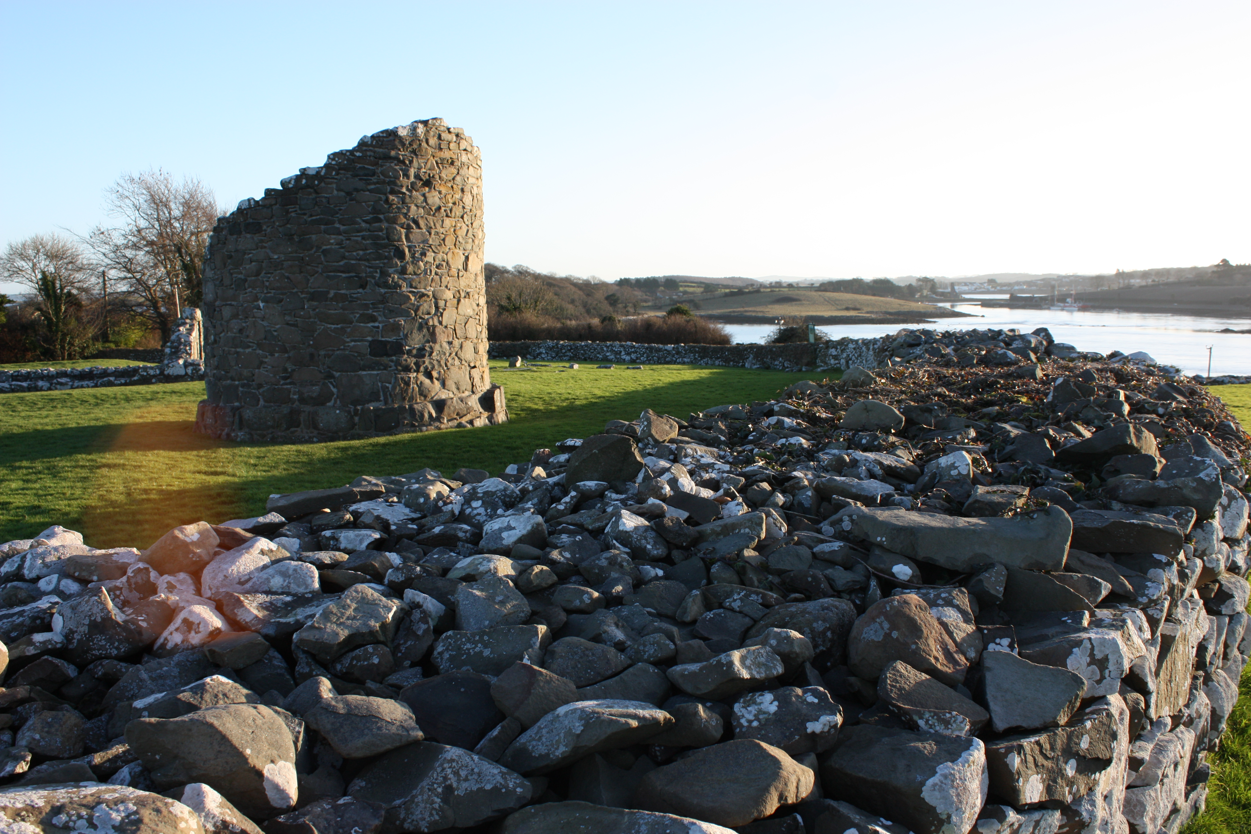 Nendrum Monastery, Mahee Island, County Down, Northern Ireland, January 2011